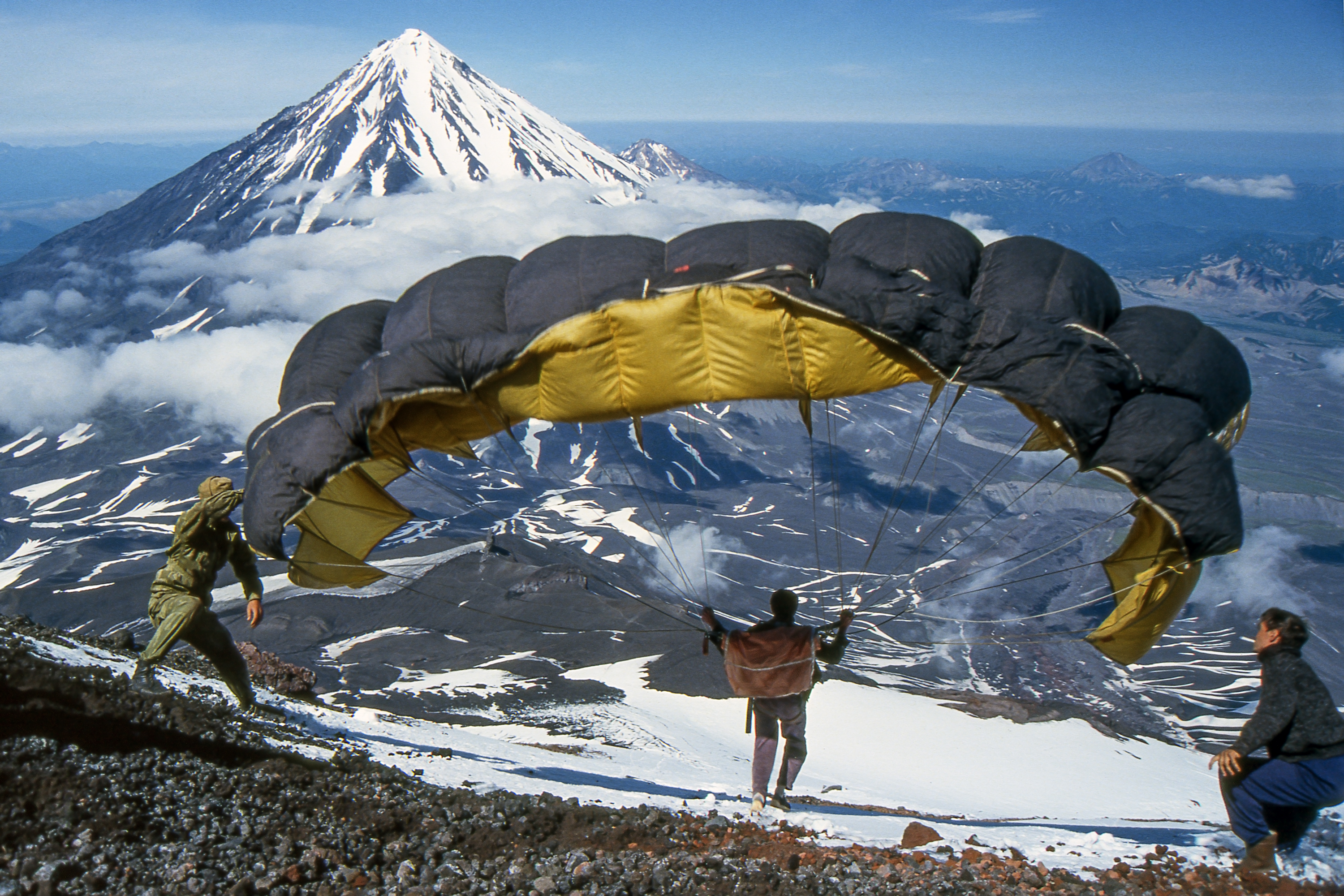 Koryaksky volcano seen from the Avachinsky's volcano - Kamchatka, Russian Federation